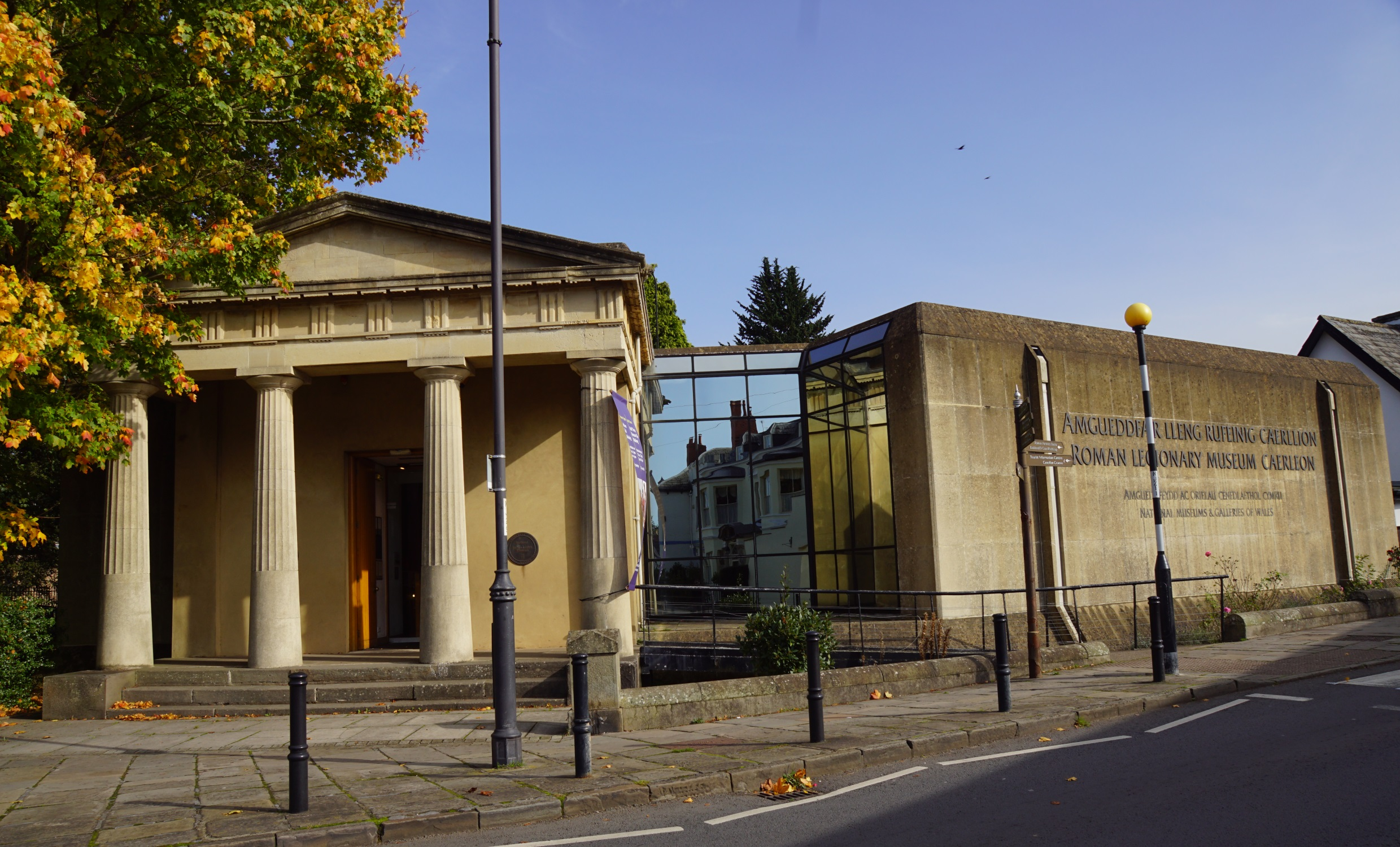 National Roman Legion Museum, Caerleon, Wales, United Kingdom.